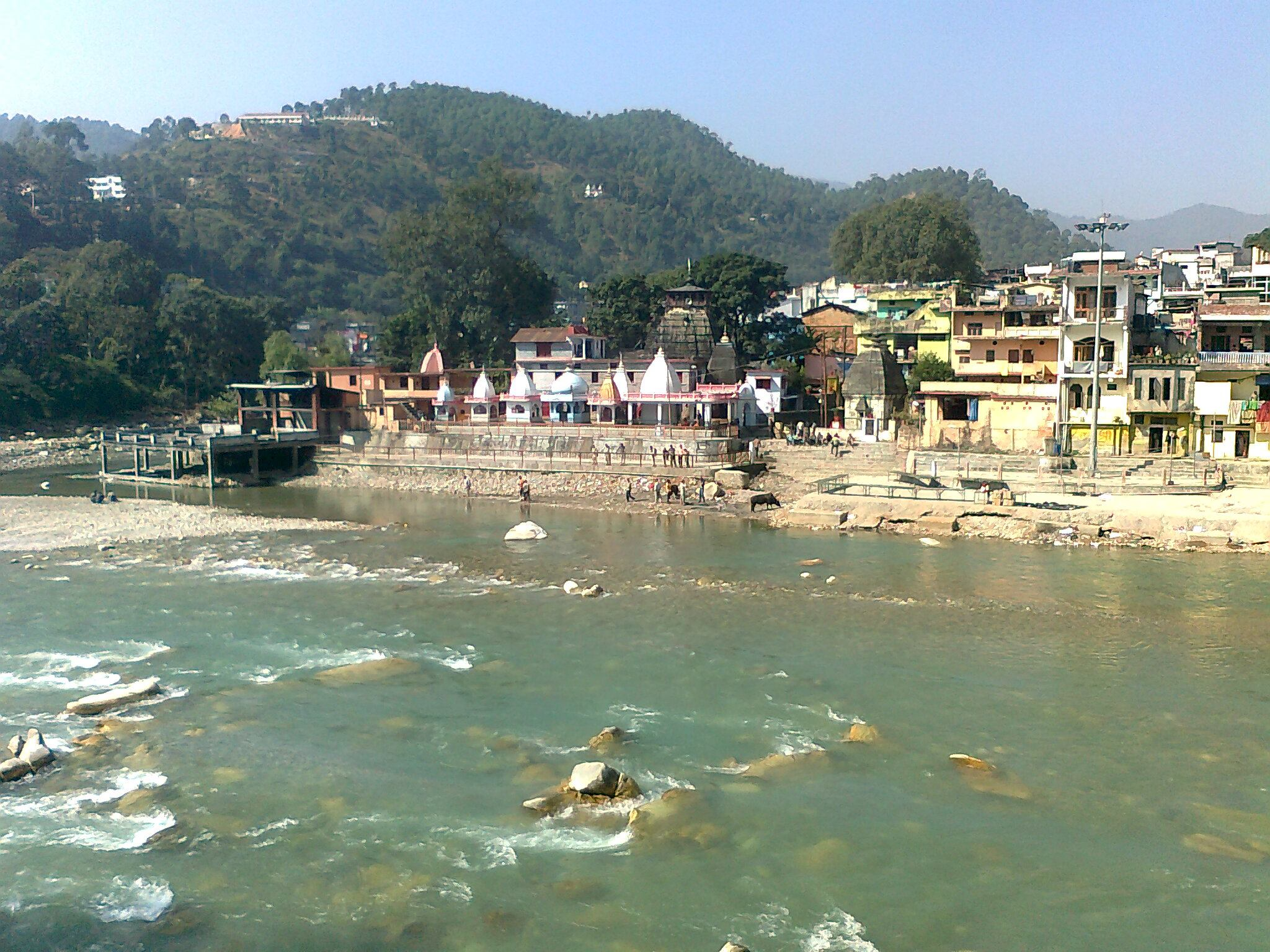 Bagnath Temple, Bageshwar, Uttrakhand